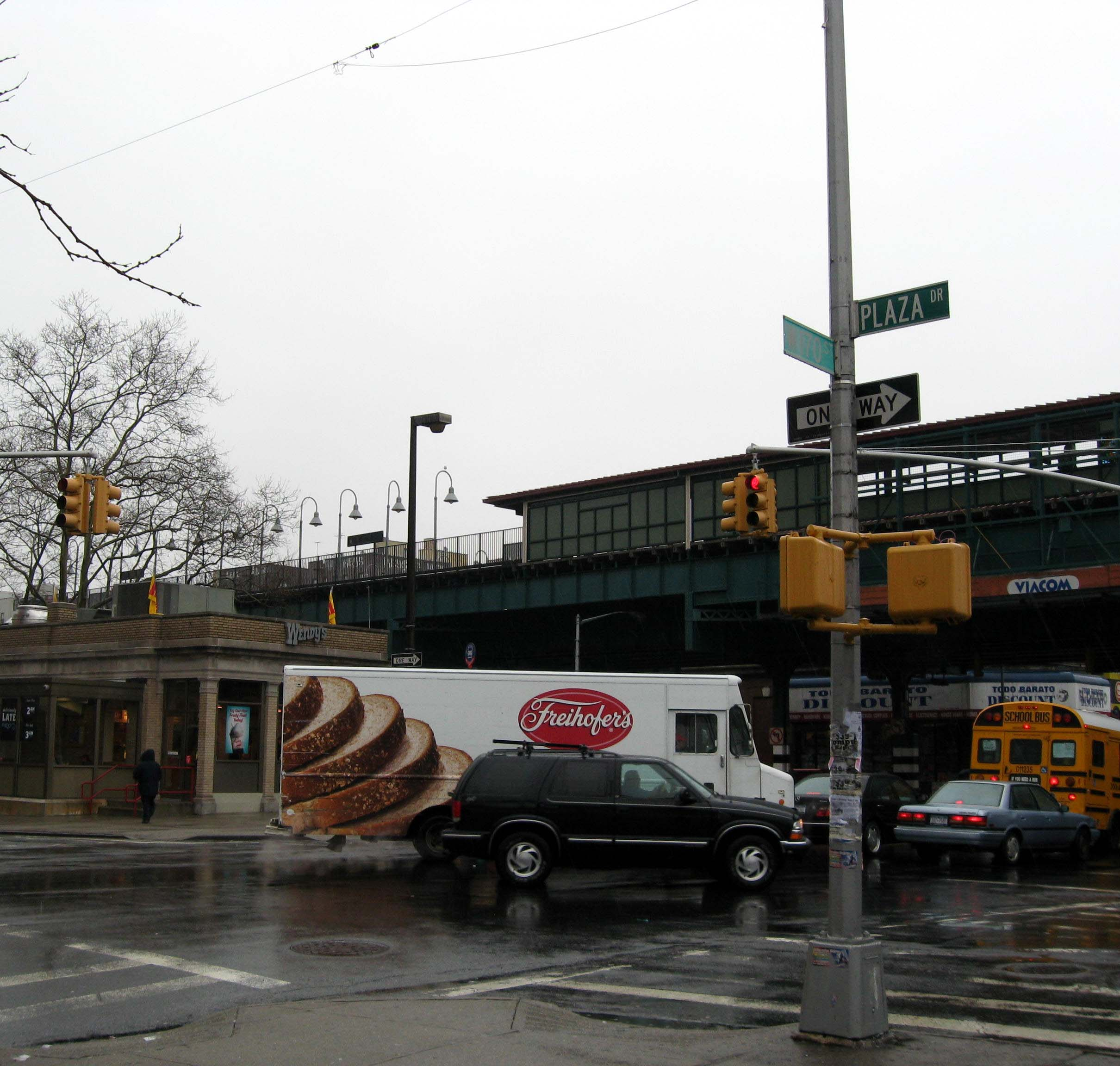 Looking east across a rainy plaza at en:170th Street (IRT Jerome Avenue Line) station in Mount Eden, ZIP Code 10452.